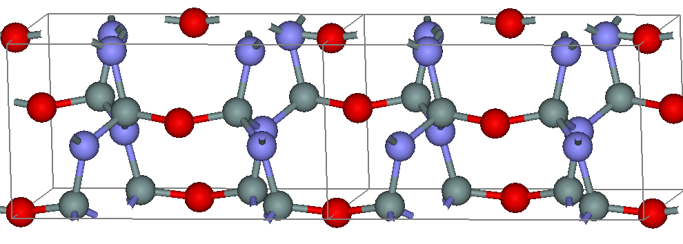 Crystal structure of mineral sinoite (silicon oxynitride, Si2N2O). Red: O, blue: N, gray: Si. Ohashi, Masayoshi et al. (1993). "Solid Solubility of Aluminum in O'-SiAlON". J. Am. Ceram. Soc. 76: 2112-2114.